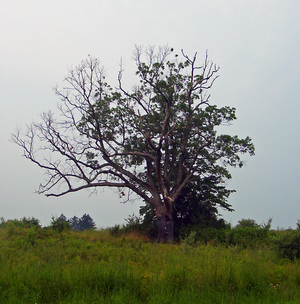 Photographed by Daniel Case 2006-07-27. Category:Individual oak trees